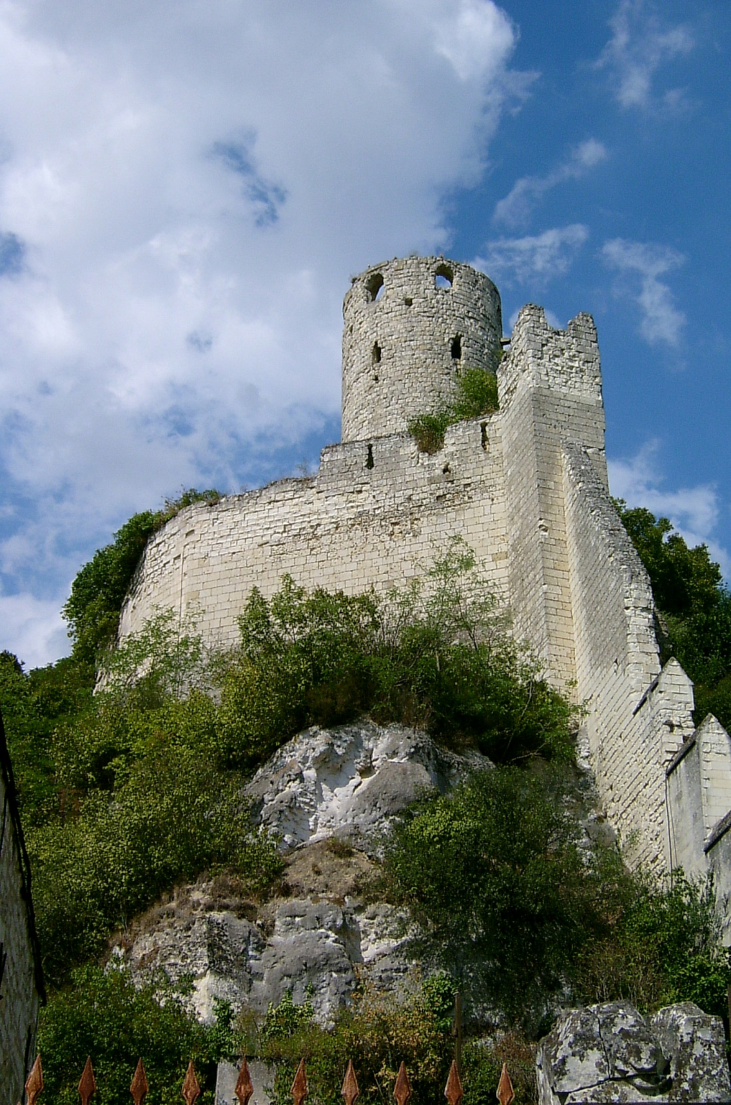 Tower of Chonon castle in France